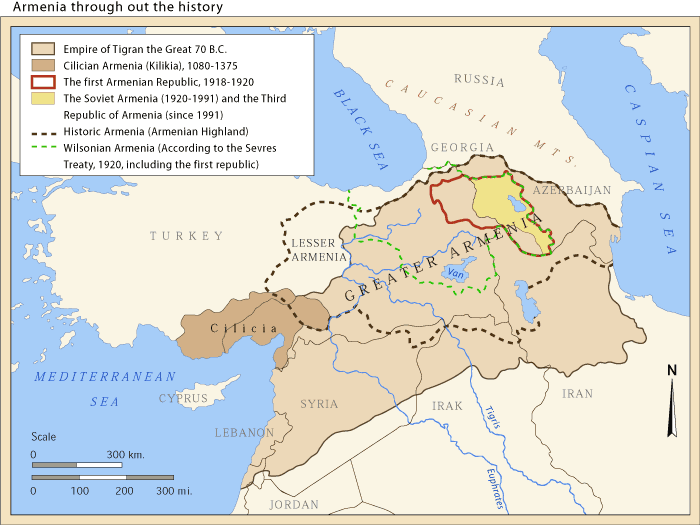 A map of Armenia's borders throughout history